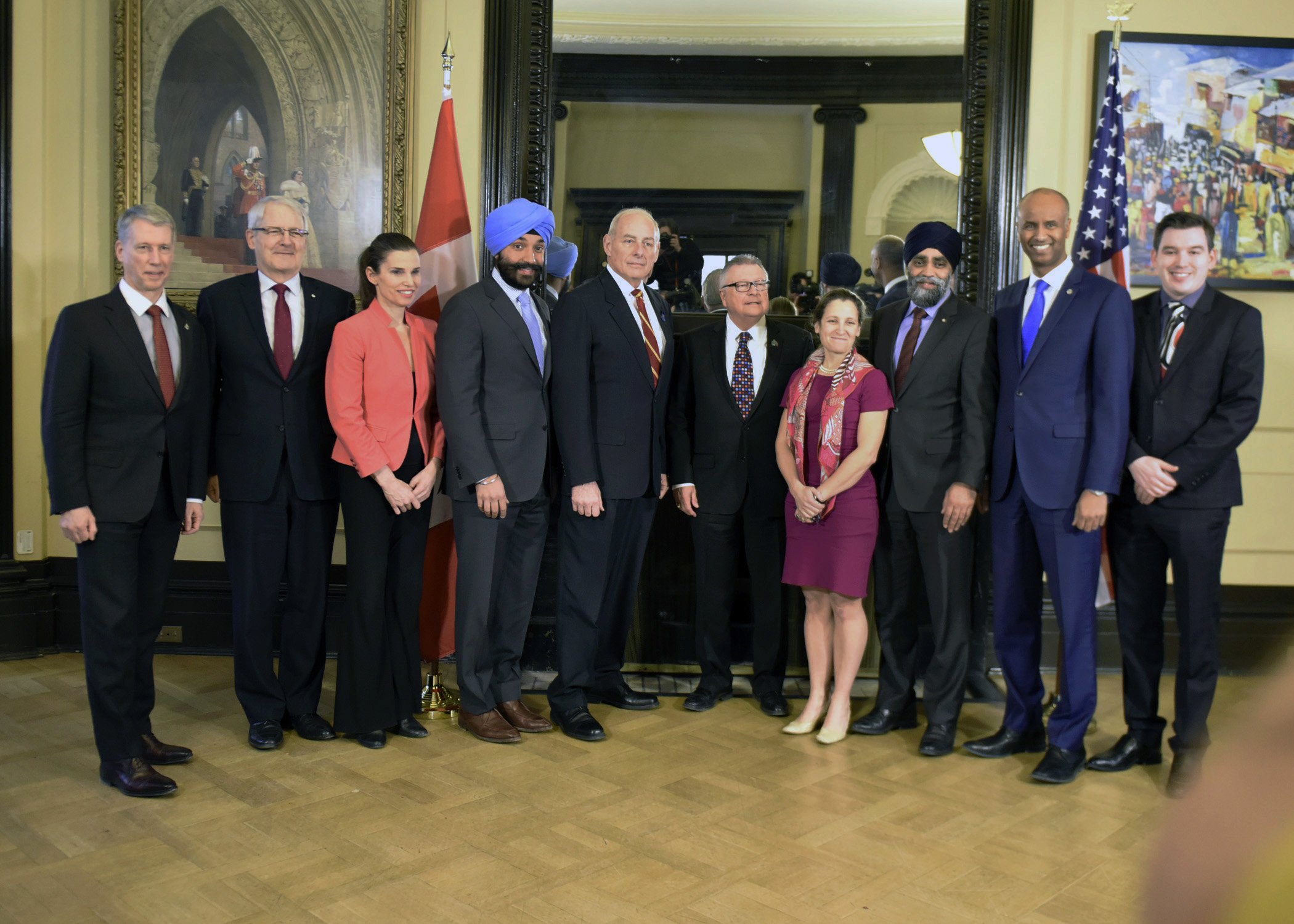 OTTAWA - Gen. (ret.) Andrew Leslie. Parliamentary Secretary to the Minister of Foreign Affairs with special responsibility for Canada- US Relations, from left; Minister of Transport Marc Garneau; Minister of Science Kirsty Duncan; Minister of Innovation, Science, and Economic Development Navdeep Bains; Secretary of Homeland Security John Kelly; Minister of Public Safety and Emergency Preparedness Ralph Goodale; Minister of Foreign Affairs Chrystia Freeland; Minister of Defense Harjit Sajjan; Minister of Immigration, Refugees, and Citizenship Ahmed Hussen; and Terry Beech, Parliamentary Secretary to the Minister of the Canadian Coast Guard pose for a photo during Kelly’s first trip to Ottawa, Canada as Secretary, March 10, 2017. Official DHS photo by Barry Bahler.